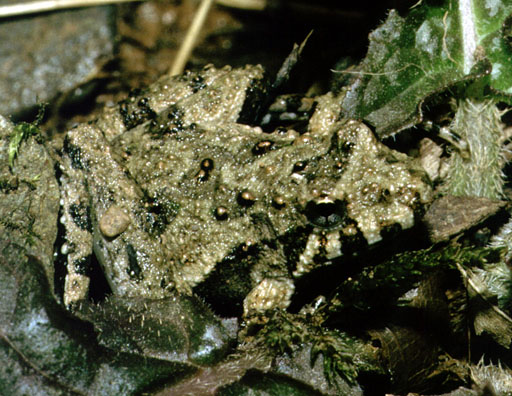 Northern Cricket Frog, Acris crepitans. Location: Eno River State Park, Orange County, North Carolina, United States